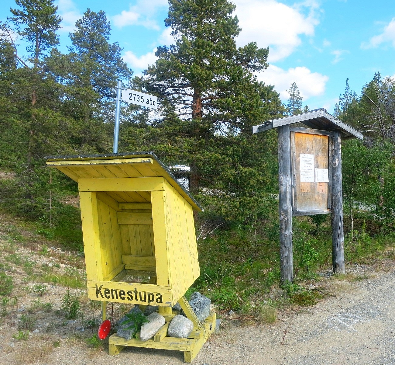 Mailbox in Utsjoki (Lapland, Finland). This mailbox is used for both receiving and sending out of post.